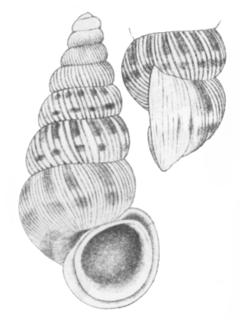 Cochlostoma septemspirale; European prosobranch land snail species.